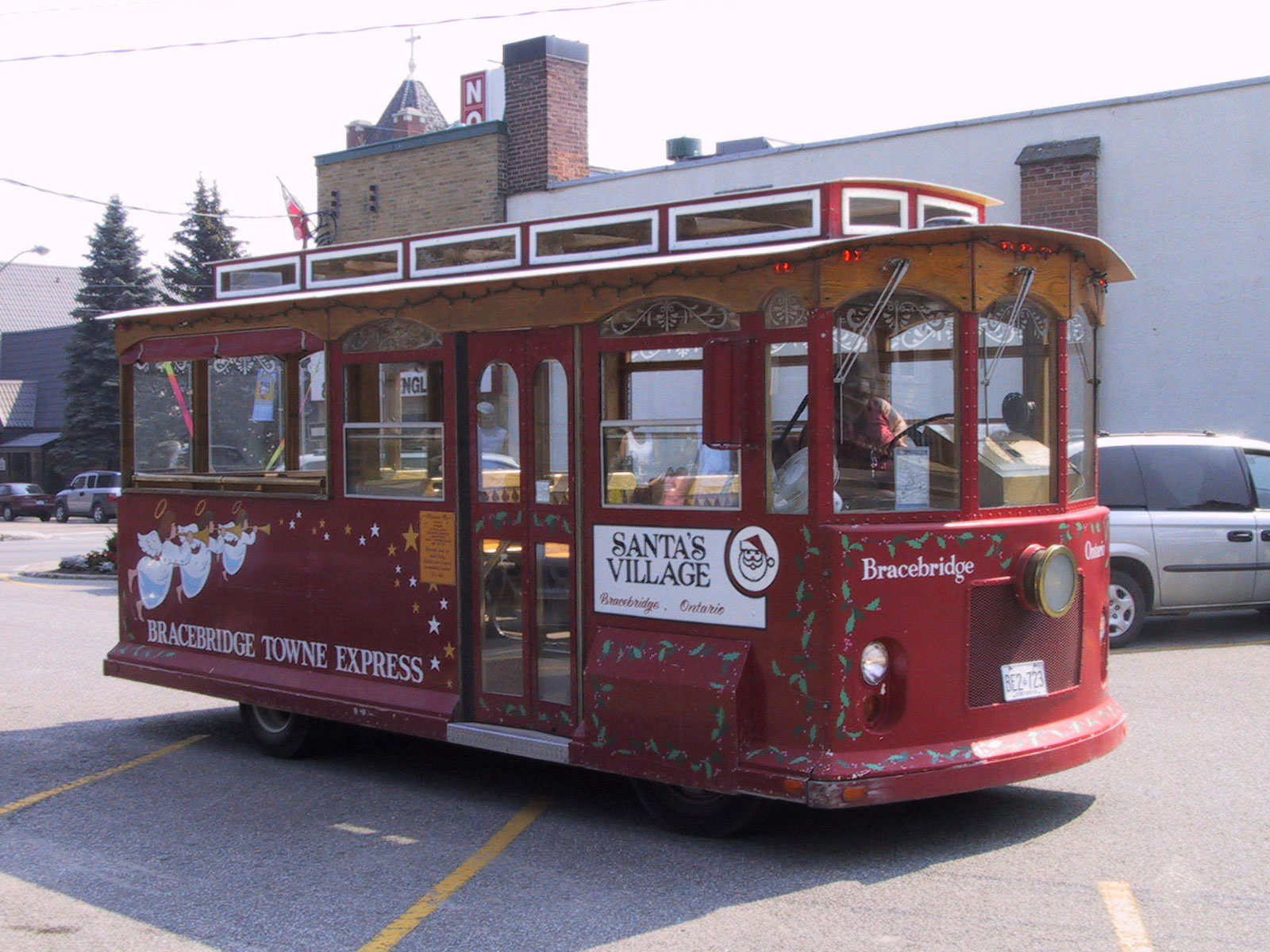 The Bracebridge Town Express ‘trolley’ of Bracebridge, Ontario, Canada.